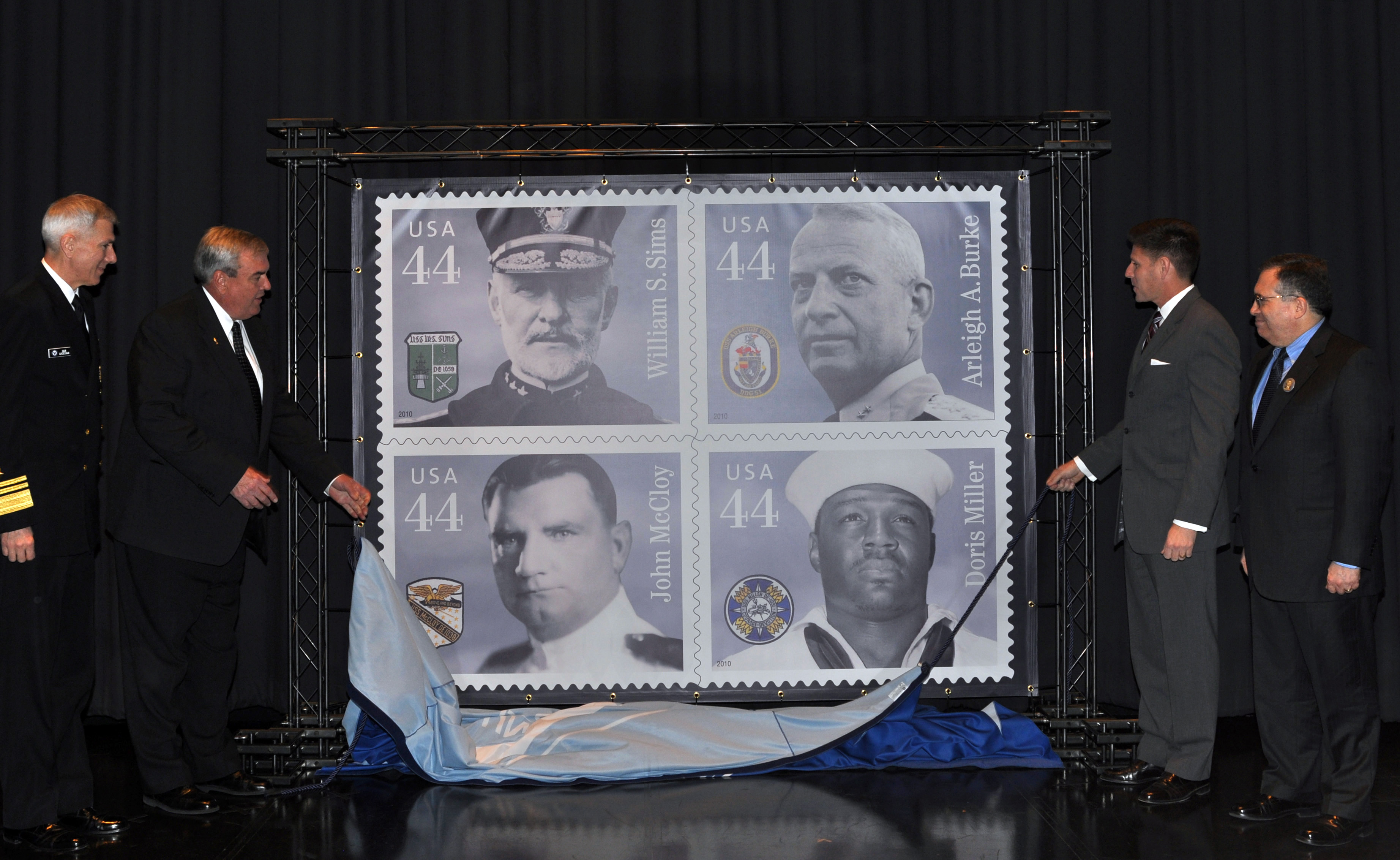 WASHINGTON (Feb. 4, 2009) Vice Adm. Samuel Locklear, director of the Navy Staff, U.S. Postal Service Postmaster General John Potter, Assistant Secretary of the Navy for Manpower and Reserve Affairs Juan Garcia and David Rosenberg, a naval historian, unveil the Distinguished Sailors commemorative stamps series during a ceremony at the U.S. Navy Memorial. The stamps commemorate four Sailors who served with bravery and distinction during the 20th century: William S. Sims, Adm. Arleigh A. Burke, Lt. Cmdr. John McCloy and Officer's Cook 3rd Class Doris Miller. (U.S. Navy photo by Chief Mass Communication Specialist John Lill/Released)